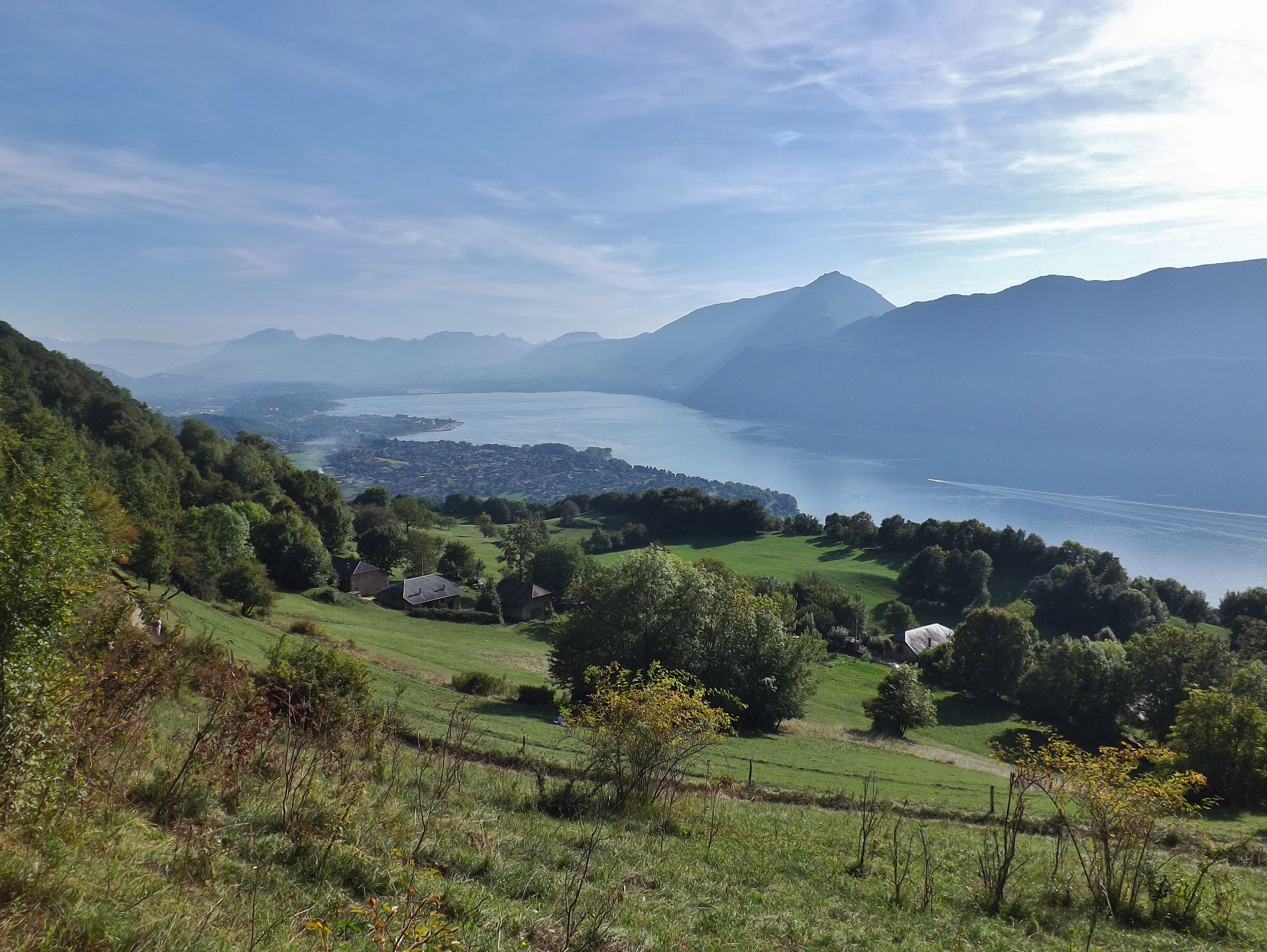 Sight on the French commune of Brison-Saint-Innocent and the lac du Bourget lake, in Savoie, France.